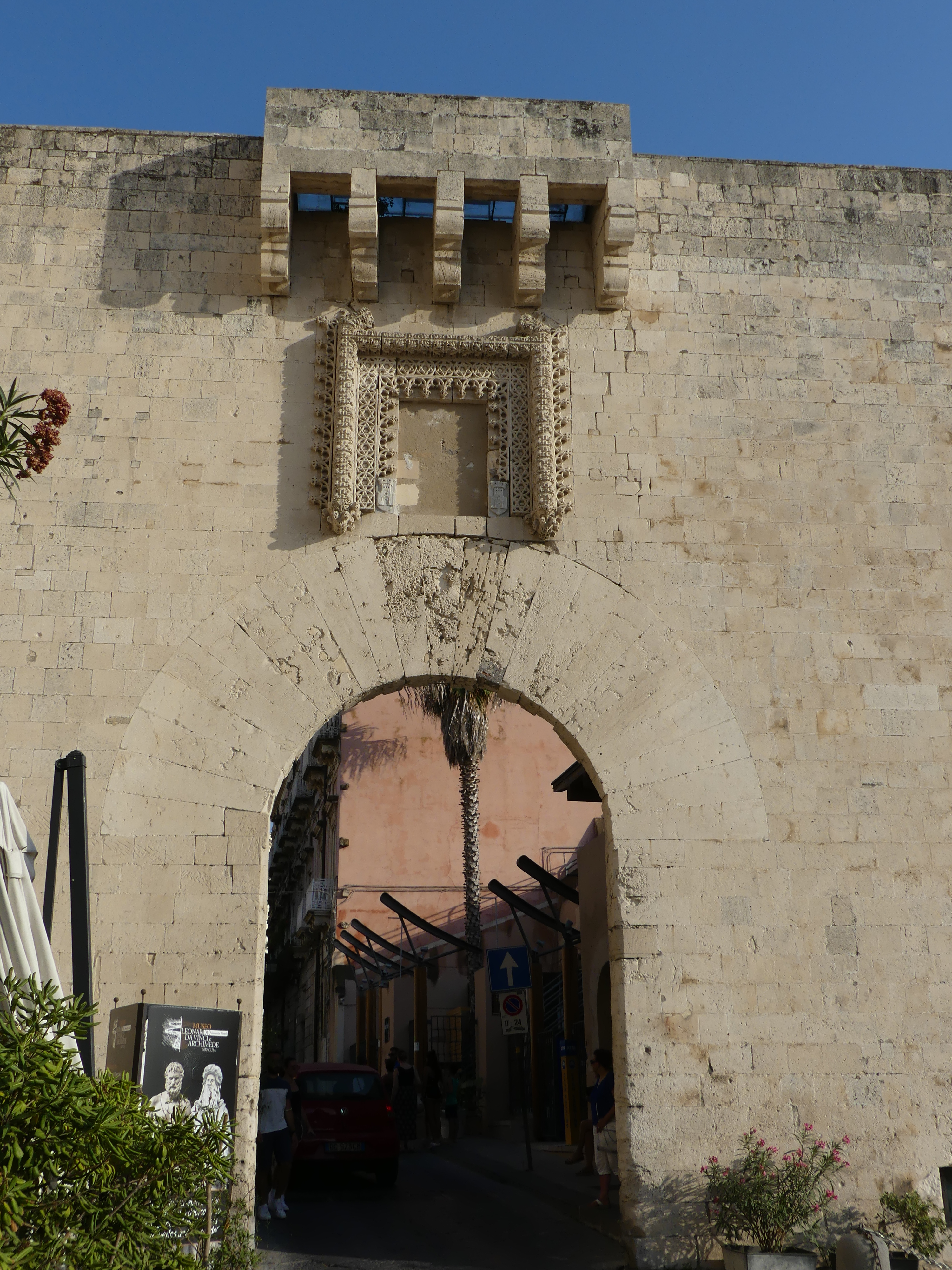 Door Marina. A splendid entrance to the Spanish-style town, elegant and at the same time mighty. Set in the narrow streets of the medieval quarter of Ortigia's islet, the Marina gateway, which allowed entry to the city through the ancient Spanish fortifications, keeps traces of the Catalan period in a very busy newsstand, where stone becomes a floral element in every part worked And perforated. Enter in the Adorno passage created over the walls in the 19th century. In addition, the gaze embraces the immense expanse of Porto Grande, in the past theater of imposing battles.